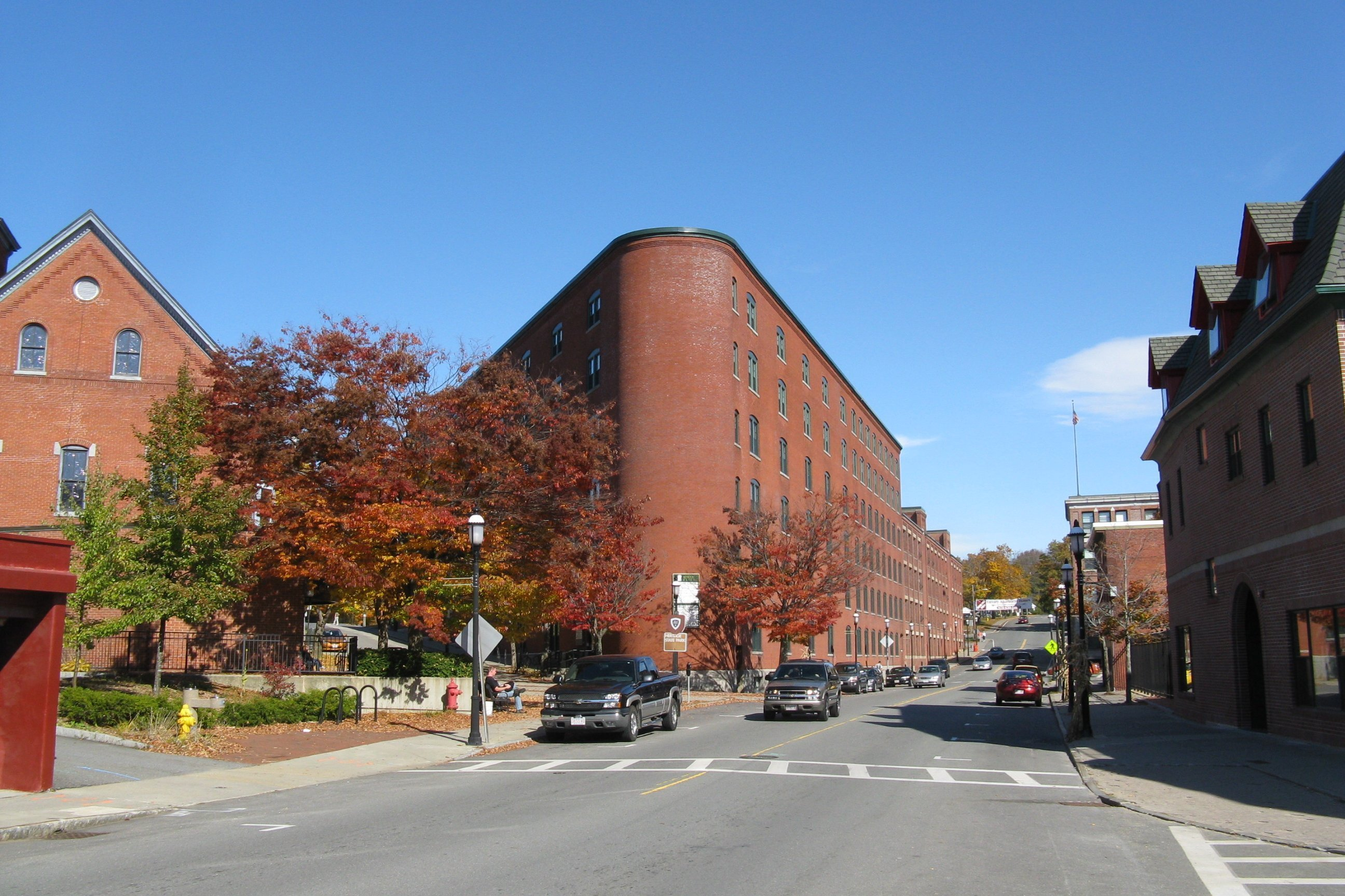 Central Street at Heywood Place, Gardner Massachusetts